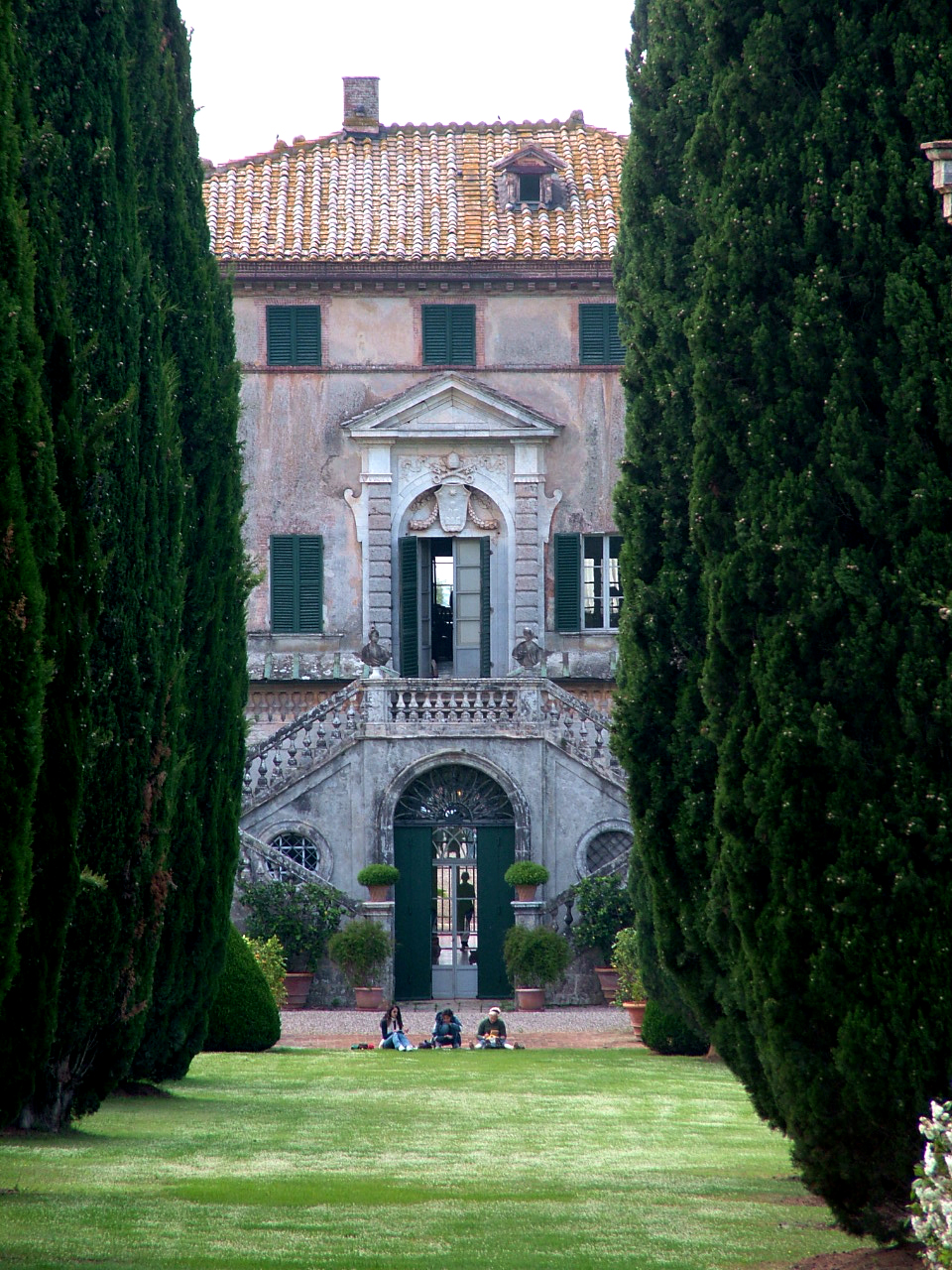 see above